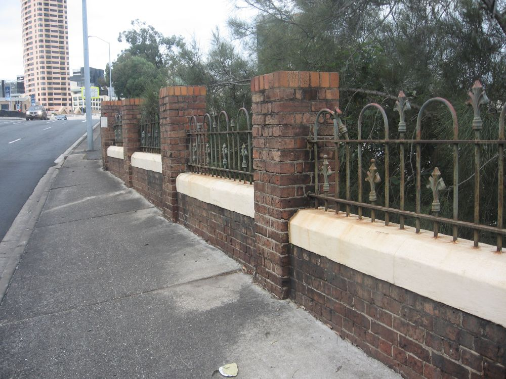 Coronation Drive (North Quay) Retaining Wall (2010)